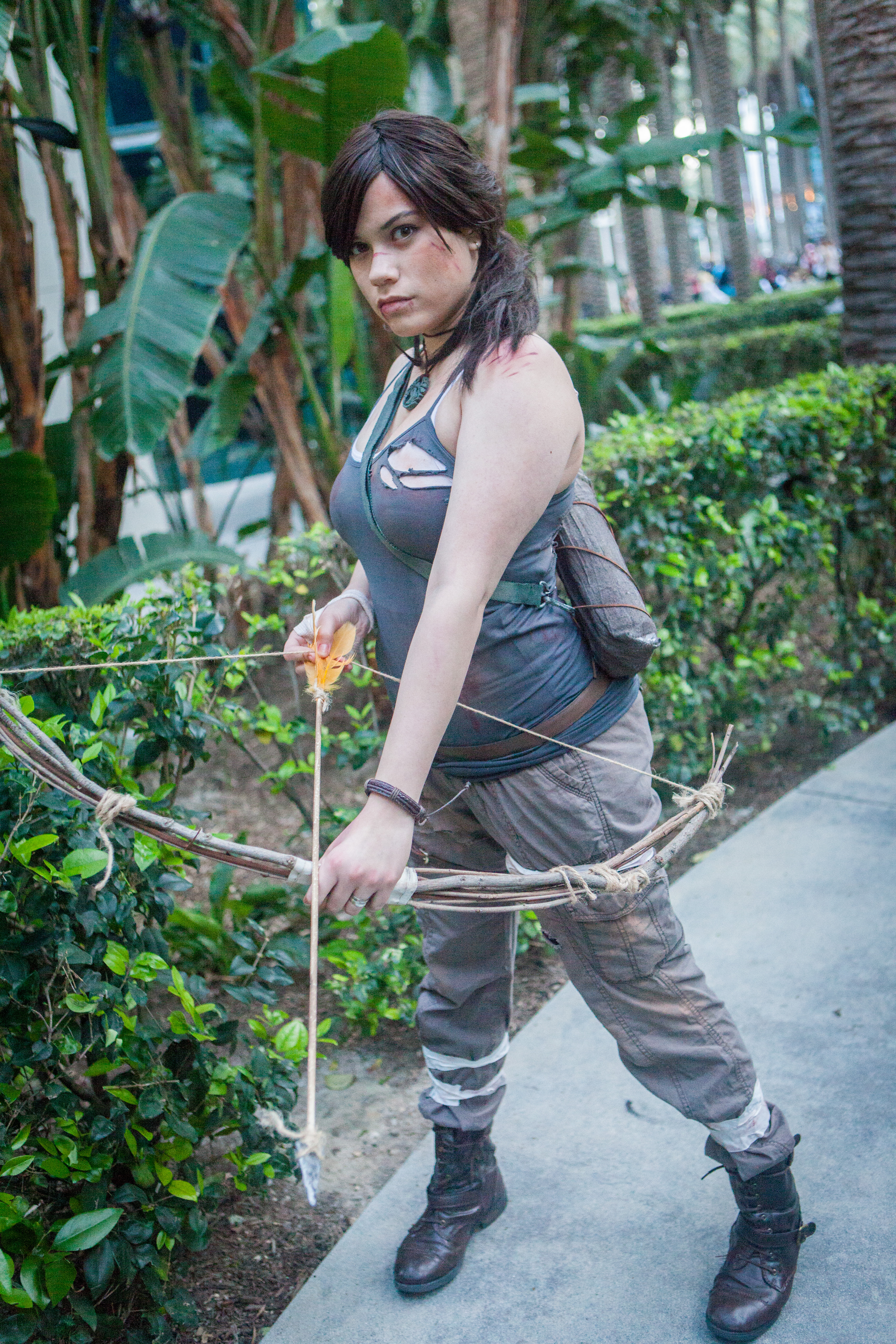 Wondercon 2014-7777